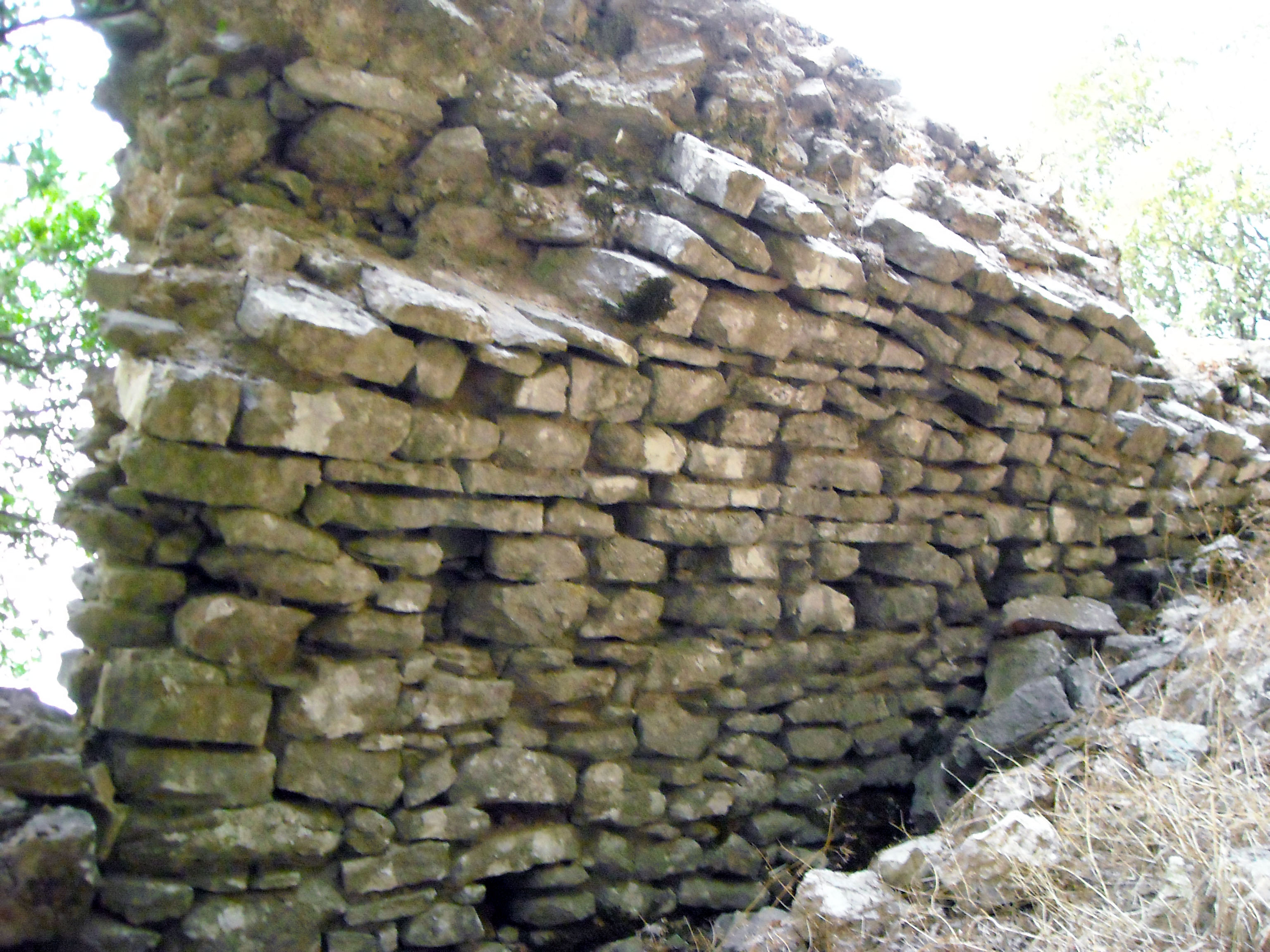 Part of the fortification of the Araclovon castle in southwestern Greece.